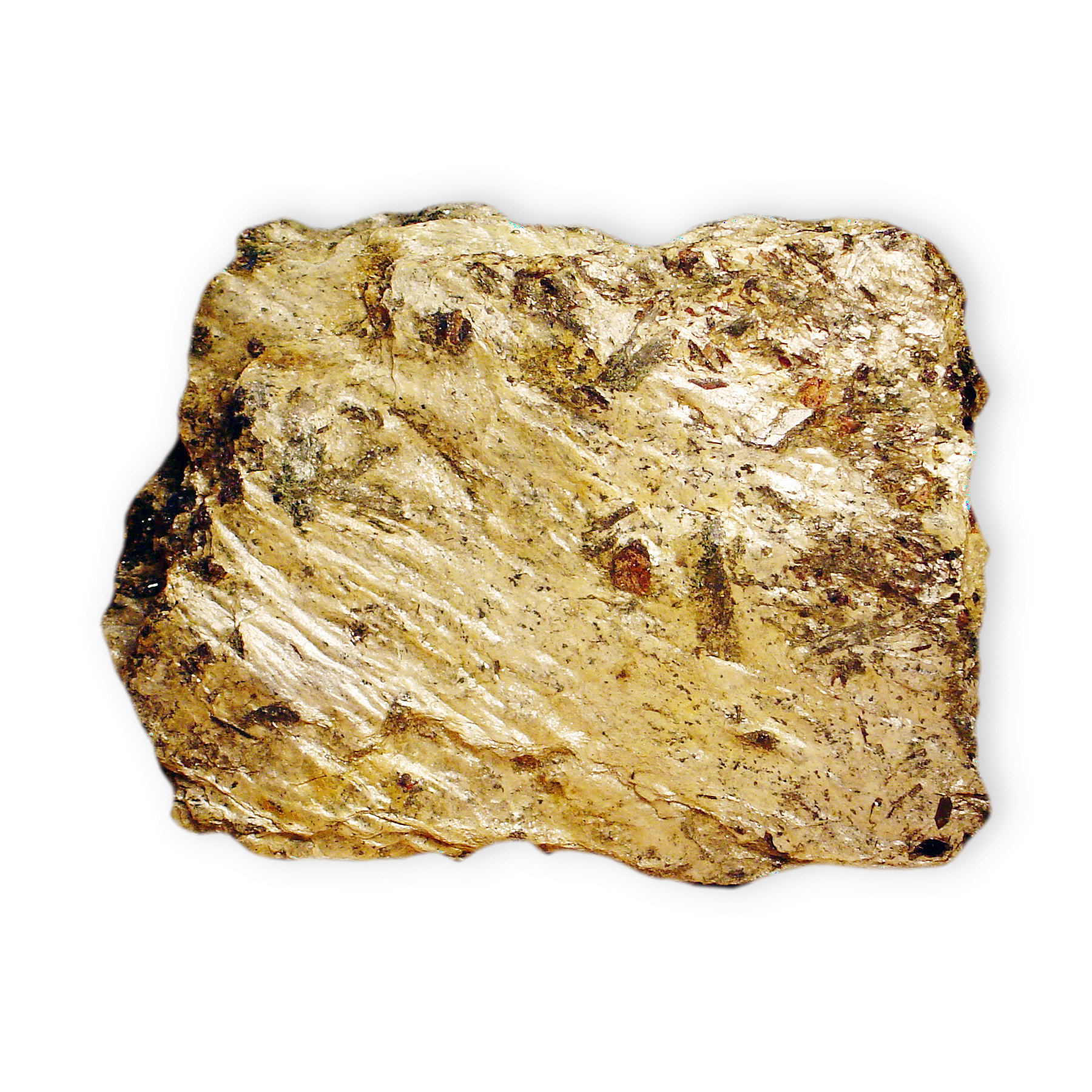 These mineral images are free to use how you wish.